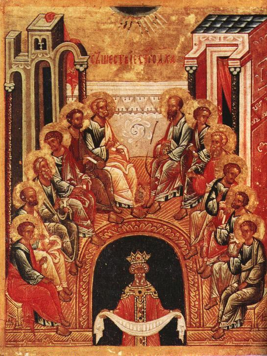 „The Descent of the Holy Spirit on Apostles“. Archbishop's Novgorod School, Russia.